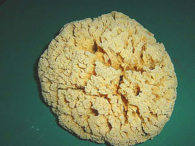 Bathing sponge, natural